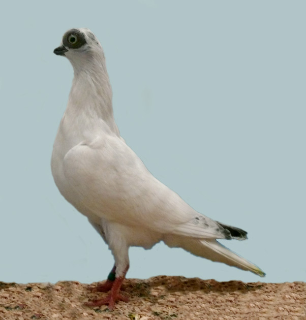 Budapest Tumbler (White Storked)